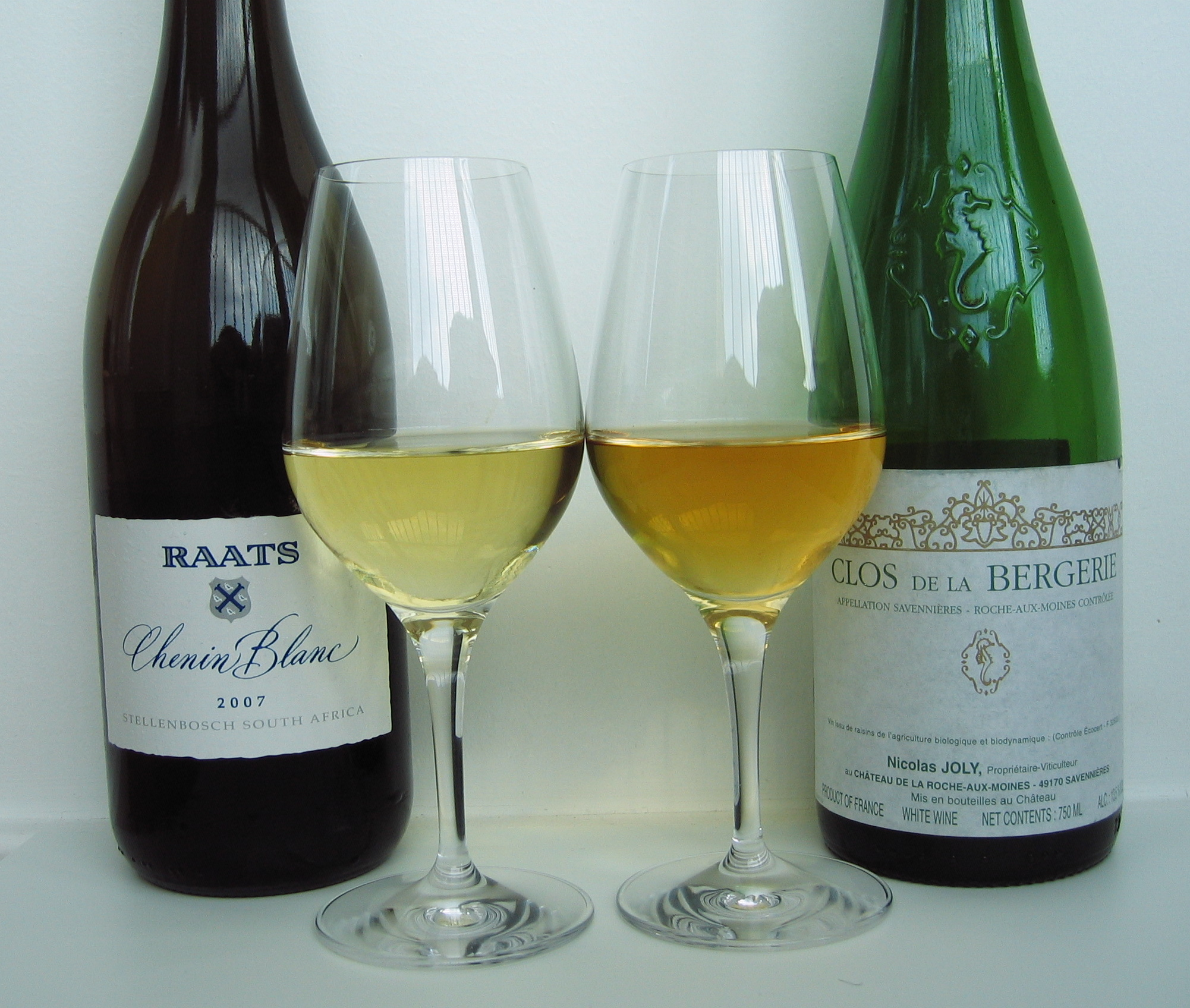 Two Chenin Blanc wines of different origin, style and age. Left Raats Chenin Blanc 2007, a young, oaked Chenin Blanc from Stellenbosch, South Africa. Right Clos de la Bergerie 2001, a Chenin Blanc from Loire with some bottle age, and most likely produced in a slightly oxidative style and with a proportion of grapes affected by noble rot.